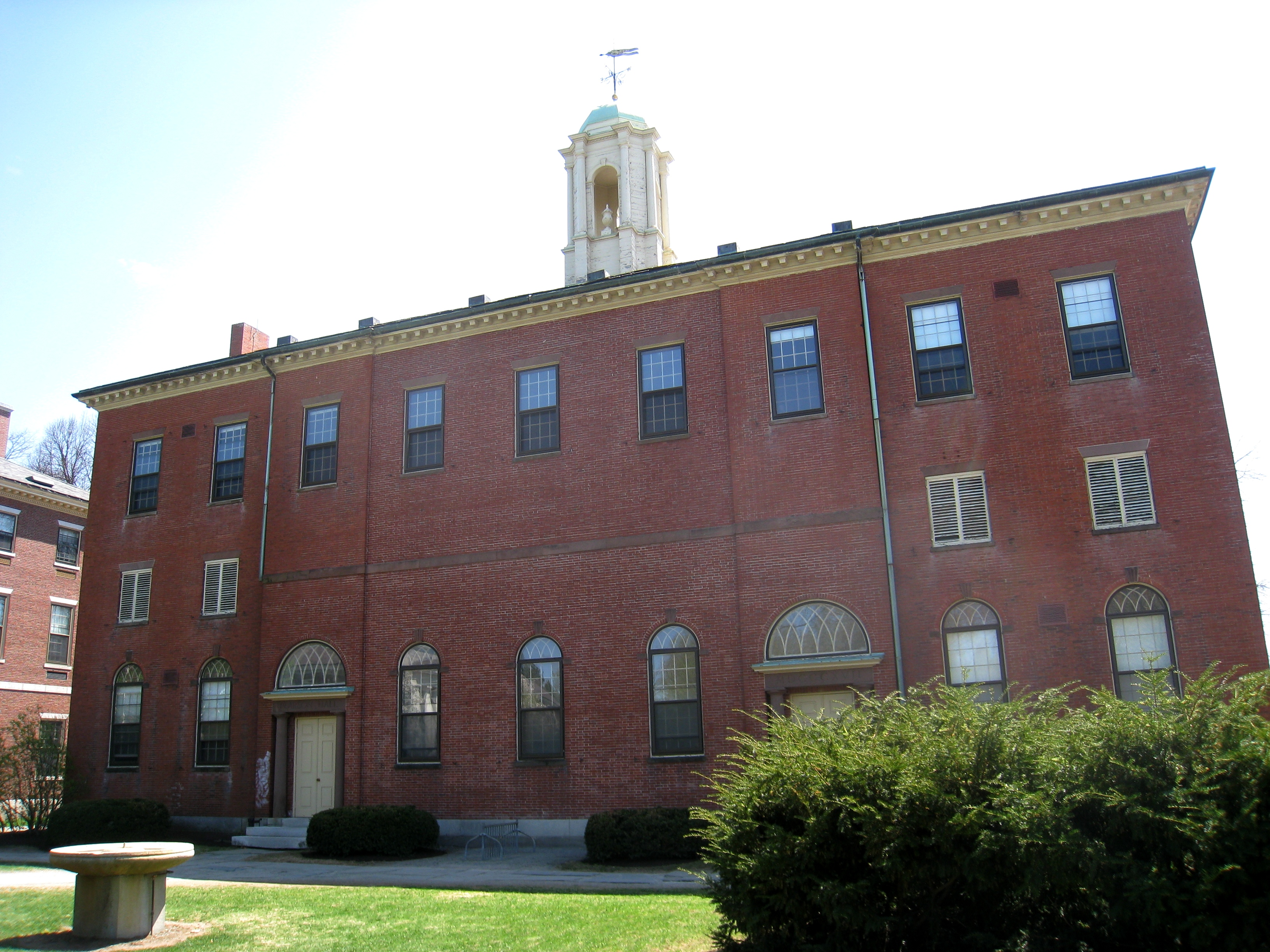 Phillips Academy, Andover, Massachusetts, USA - Pearson Hall, front facade.